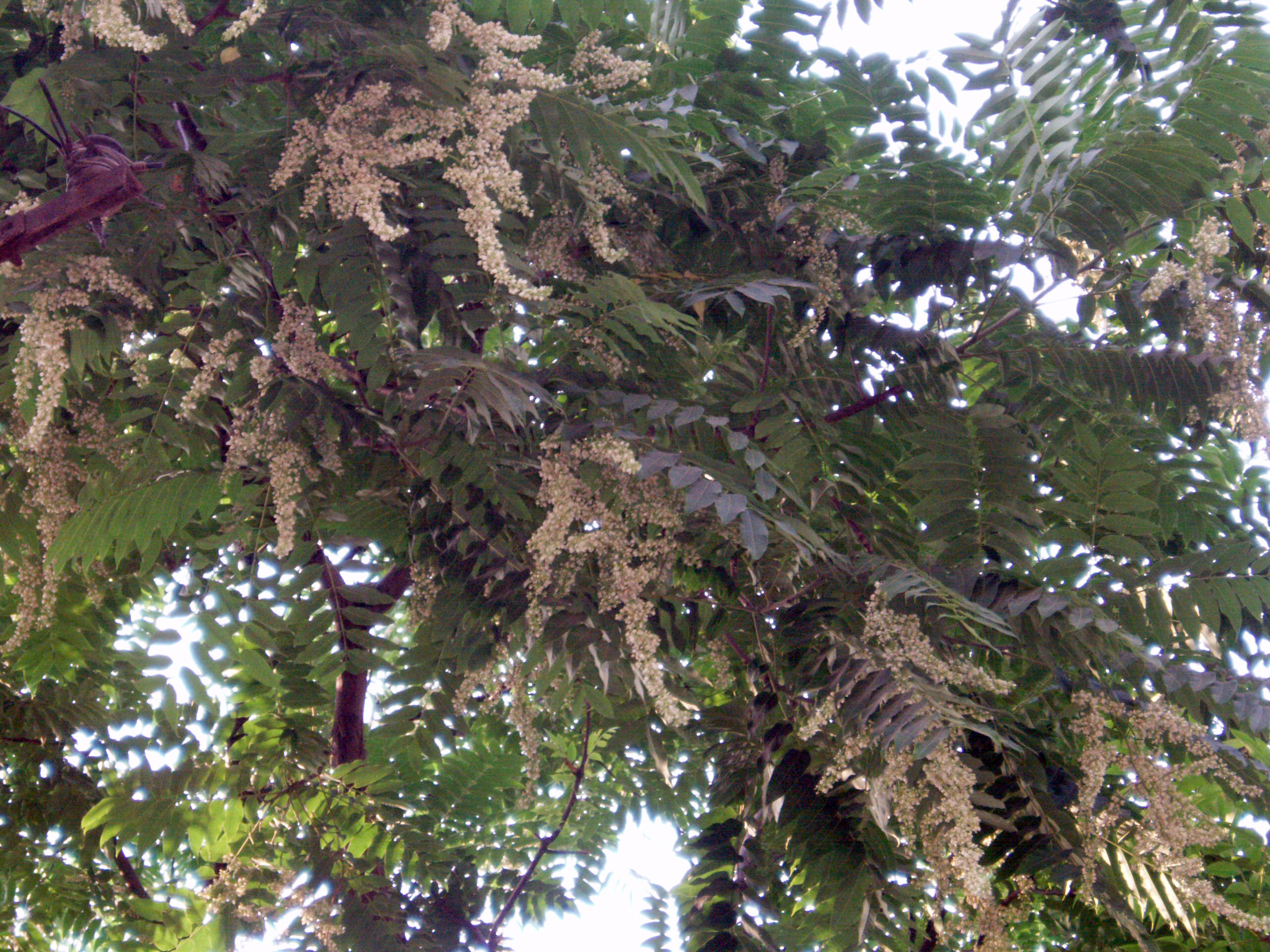 The flowers of Chinese Toon tree (Toona sinensis)